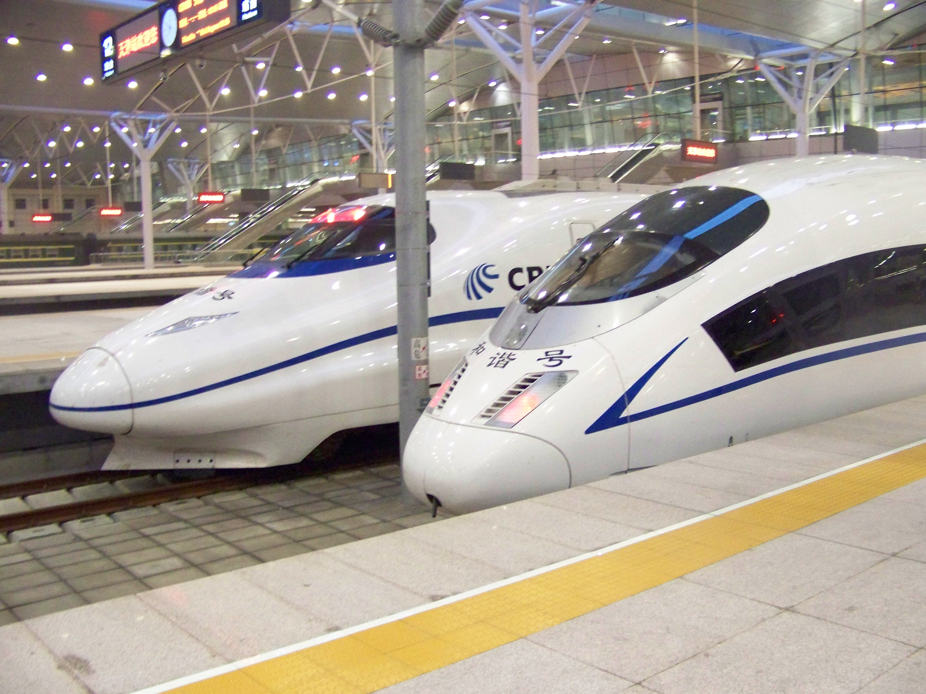 CRH2C & CRH3C at Tianjin Railway Station. 天津站，和谐号.